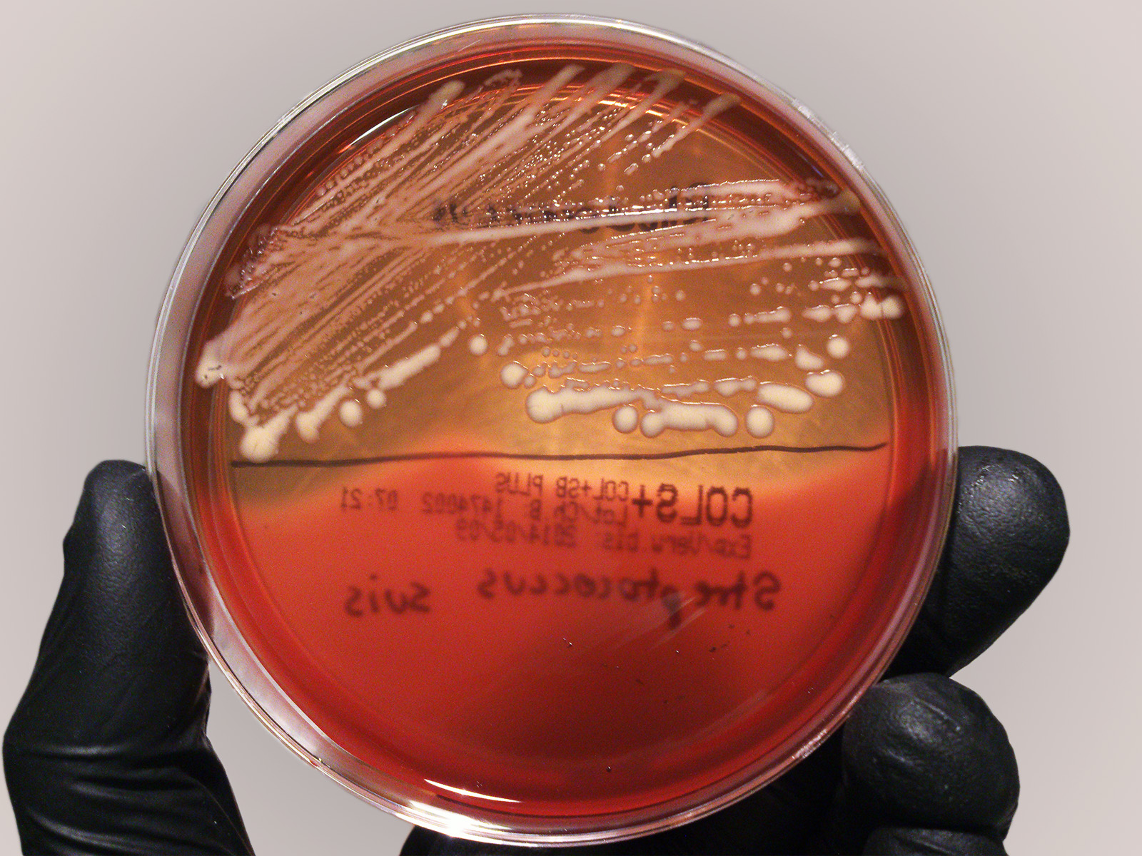 Rhodococcus spp. on the columbia agar with 5% sheep blood ("blood agar") plate.